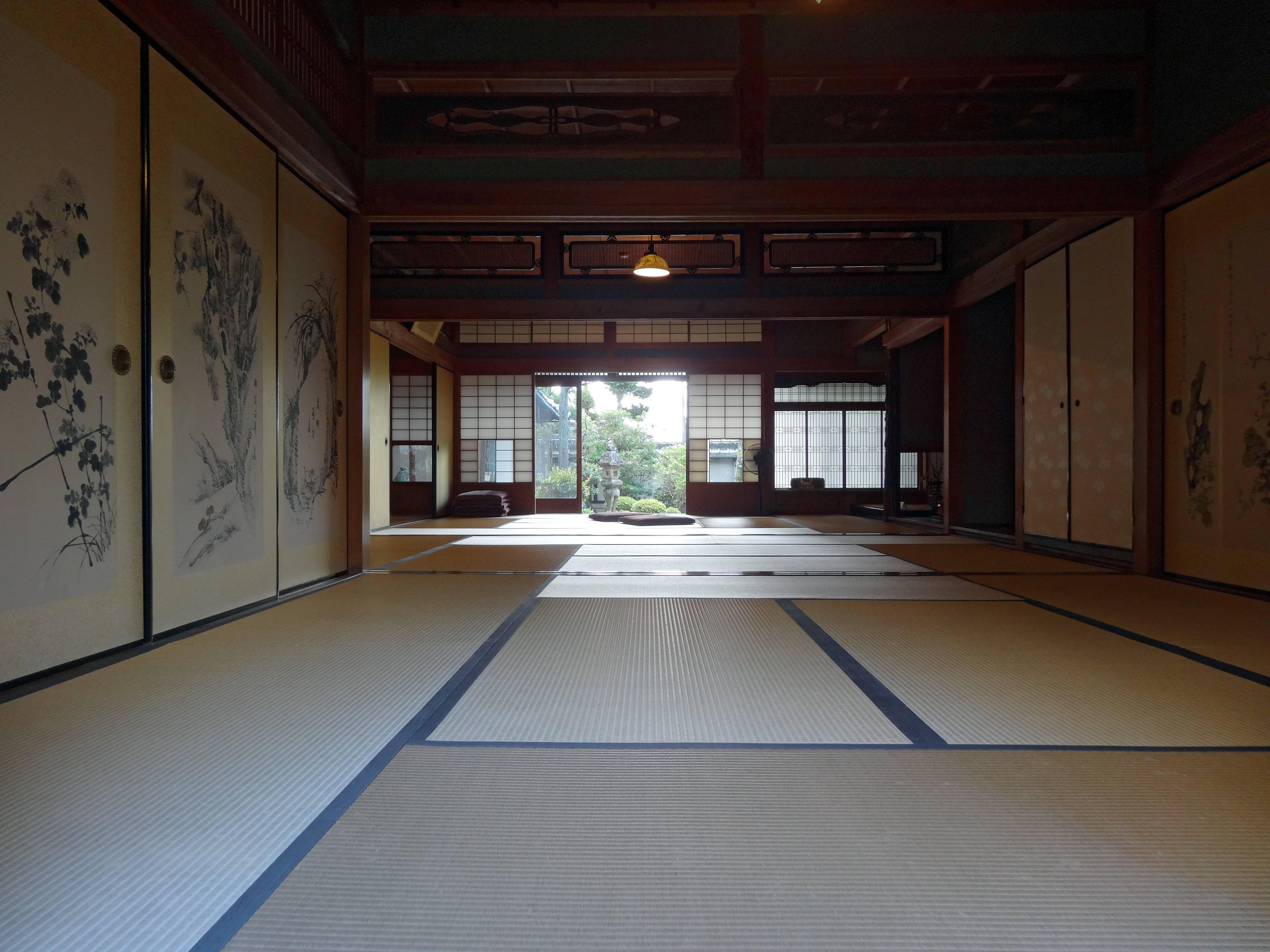 Kyodokan Museum (Folk Museum of Kawanishi) in Kawanishi, Hyogo prefecture, Japan.